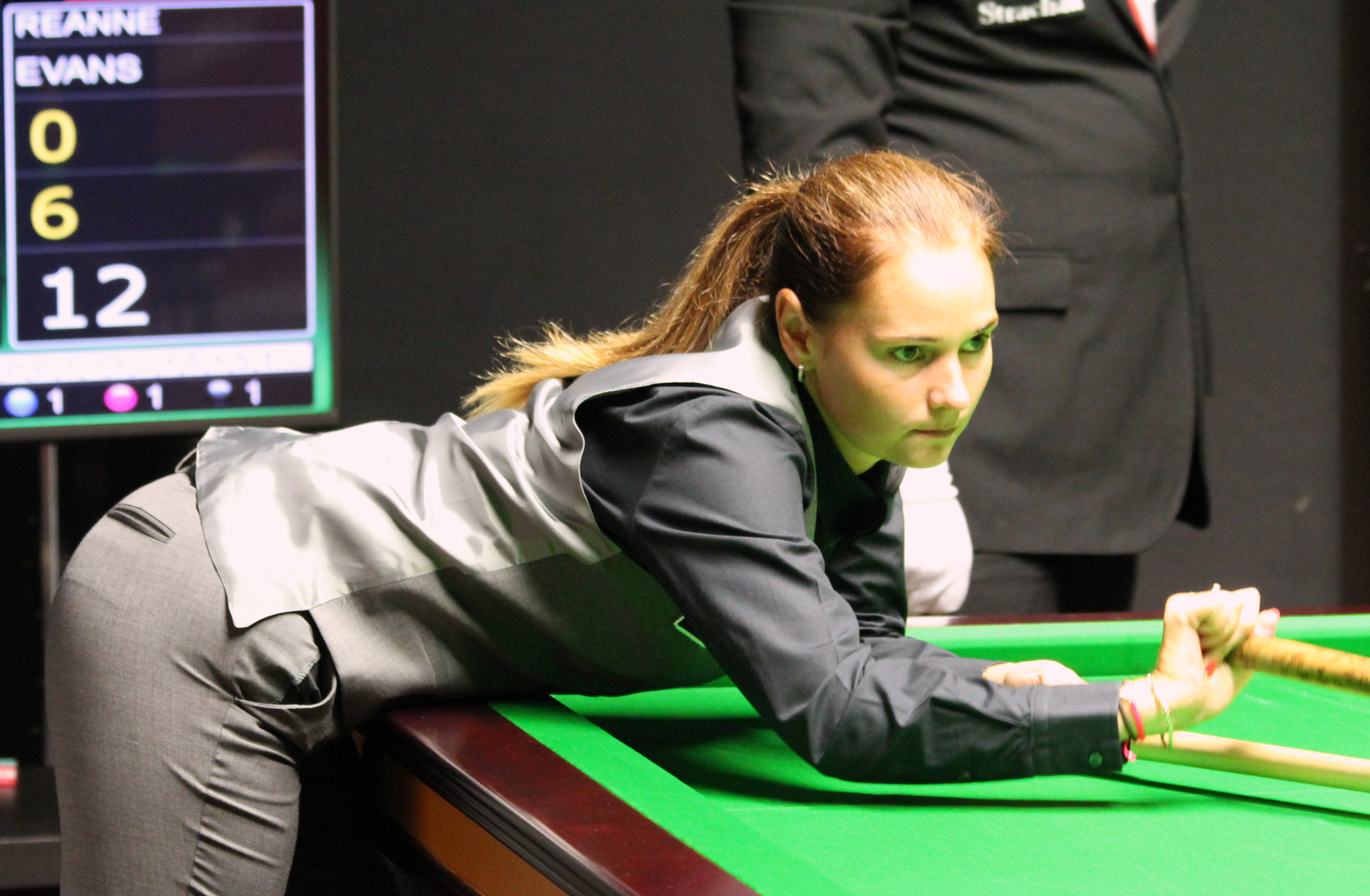 Reanne Evans at the Paul Hunter Classic 2017